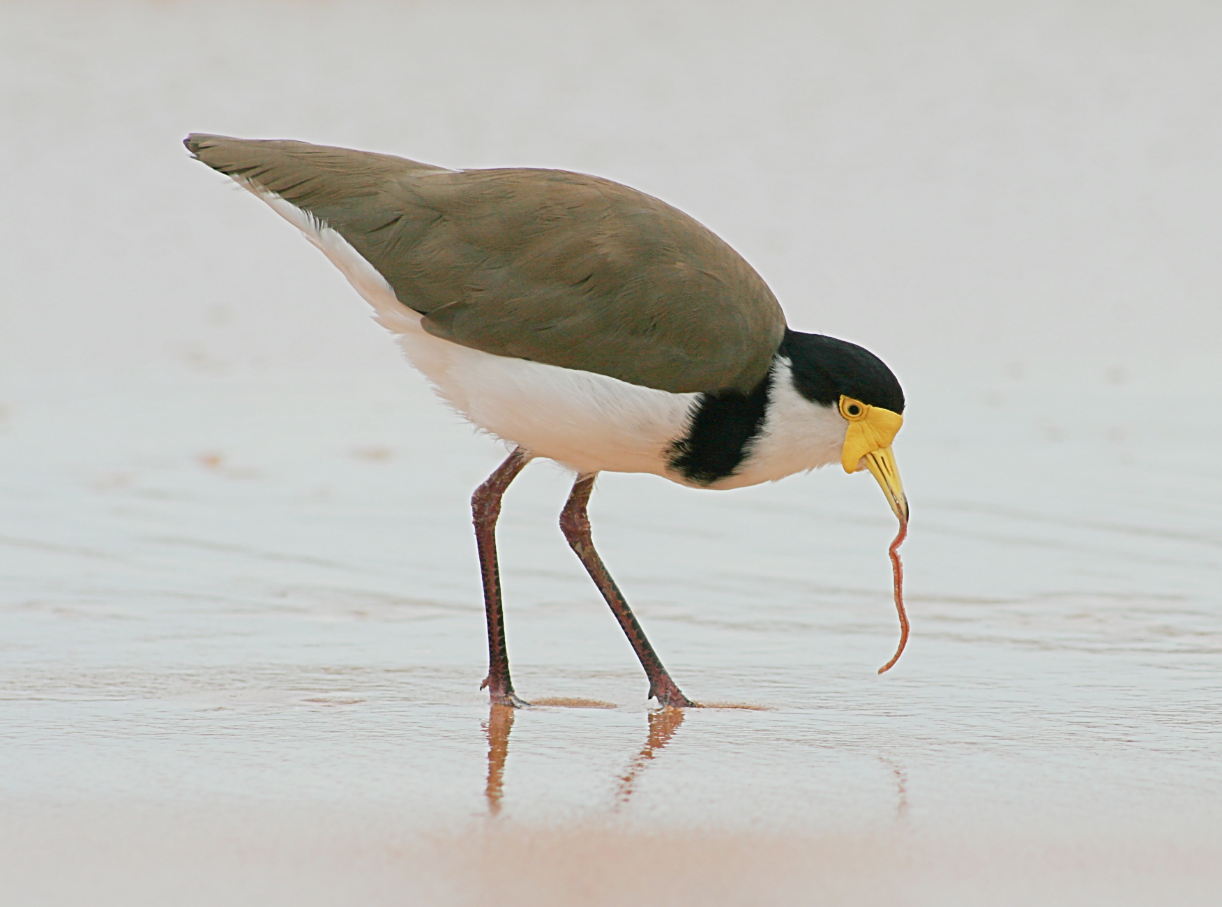 A Masked Lapwing Vanellus miles novaehollandiae with a worm on Collaroy beach, New South Wales, Australia.